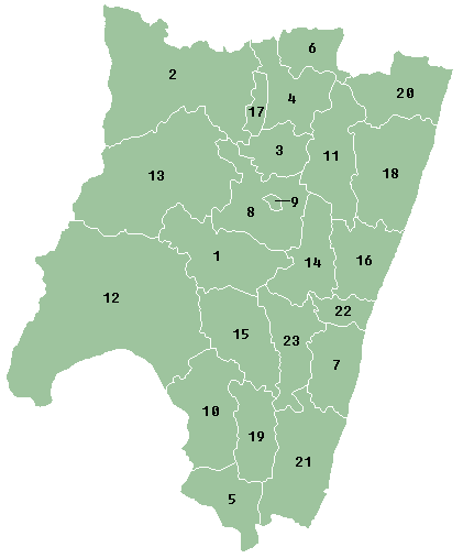 Districts (fivondronana) in Fianarantsoa province